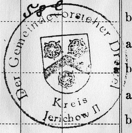 Seal of Dretzel, Germany